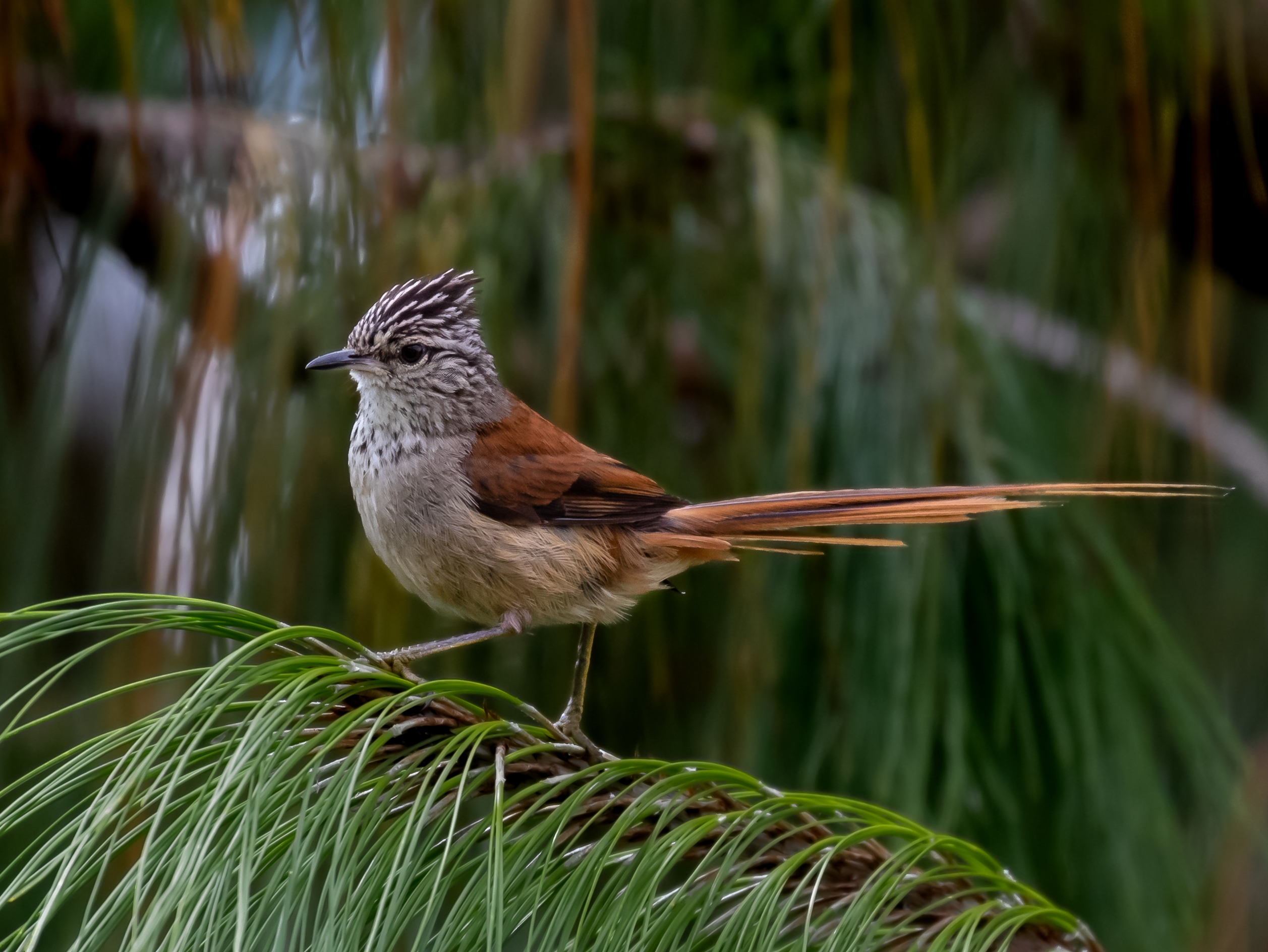 Araucaria tit-spinetail; Campos do Jordão, São Paulo, Brazil